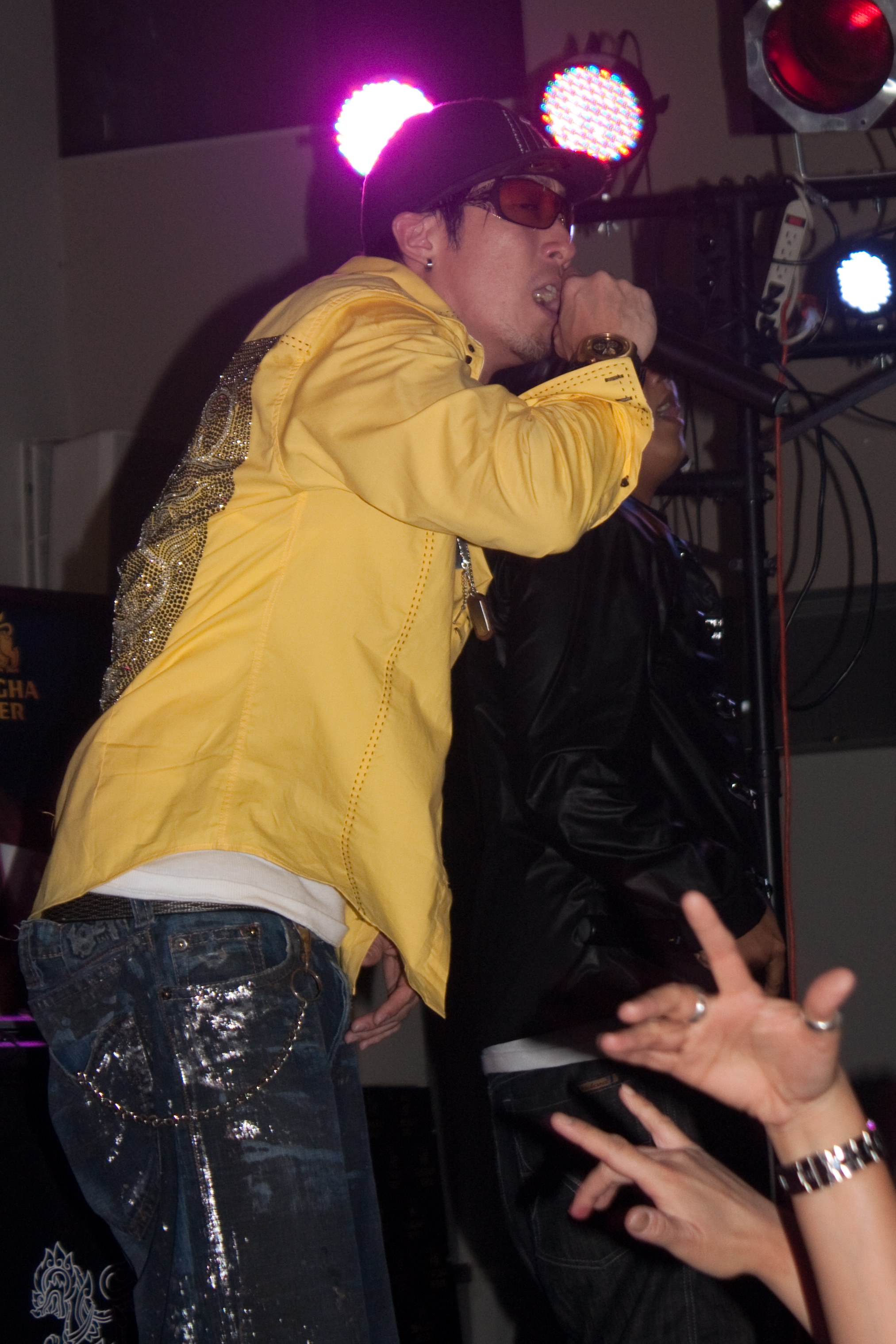 Photo by Kevin Borland. Taken at Cafe Asia in Arlington, Virginia, September 14, 2009.